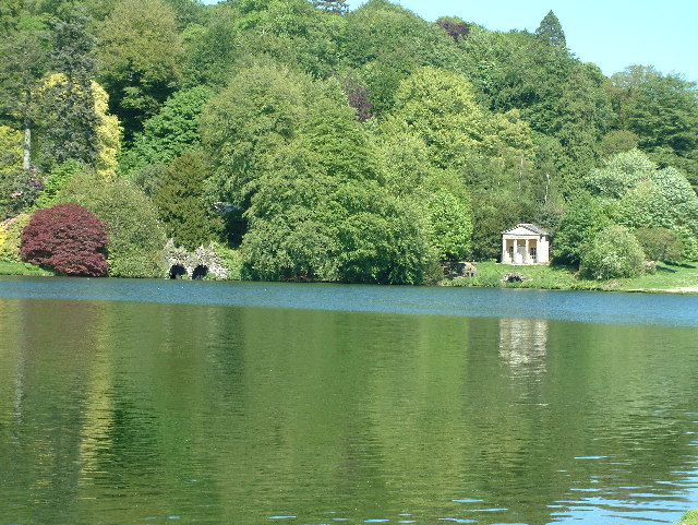 Stourhead Gardens in the spring.